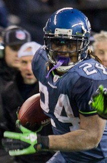 Marshawn Lynch runs with the ball next to Mike Williams (wide receiver, born 1984).